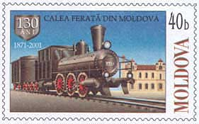 Stamp of Moldova